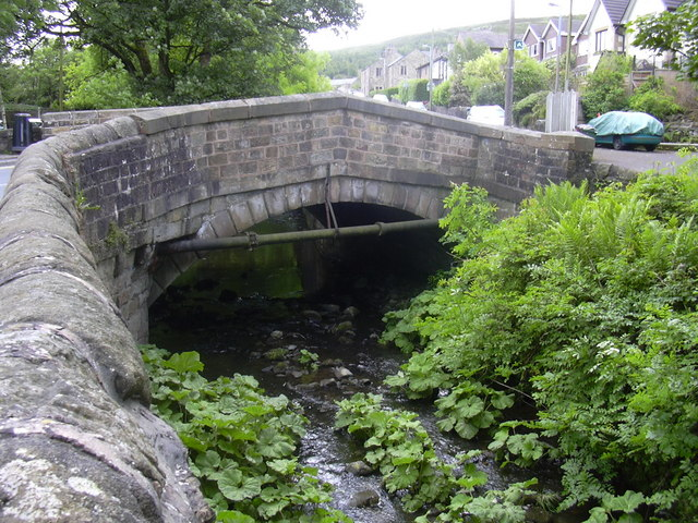 Bridge over Sabden Brook